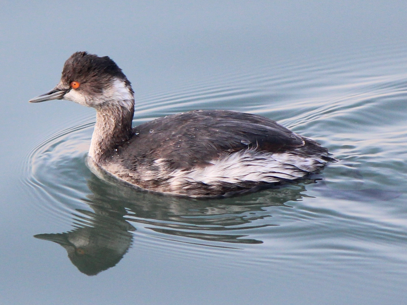 Podiceps nigricollis nigricollis (Black-necked Grebe), winter plumage, in Japan.